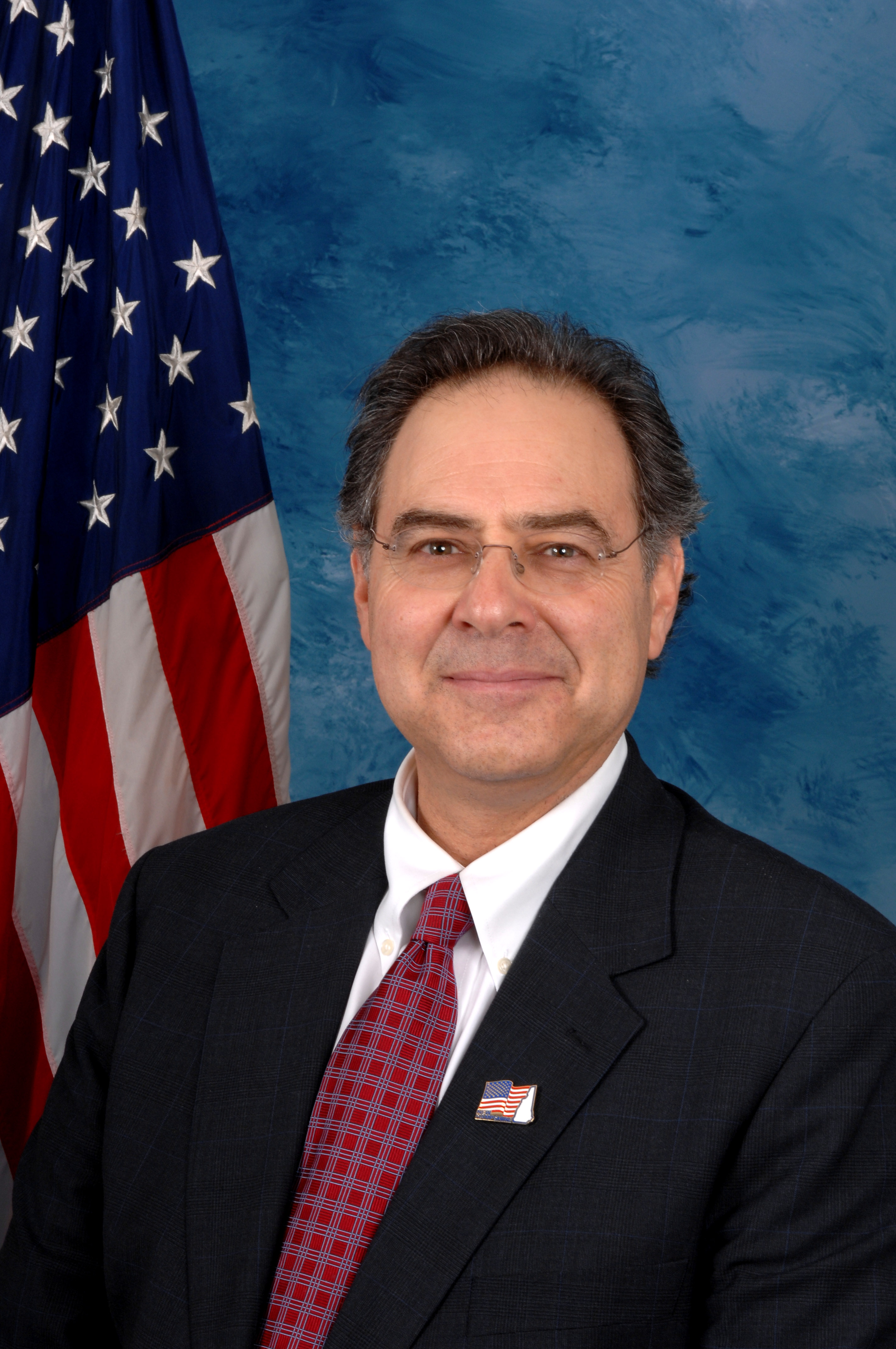 Paul Hodes, member of the United States House of Representatives.